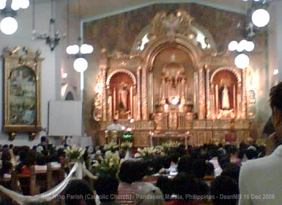 A Catholic Mass and/or church service at the Sto. Niño Parish (Child Jesus) in Pandacan, Manila the Philippines)